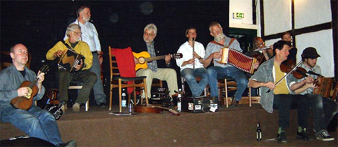 Photo of musicians playing at a céilidh in Kiel, Germany, 2007. Photo taken by me.